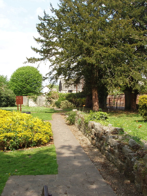 This wall was probably built between 1307 and 1346 when the abbey was substantially rebuilt. It separated the religious and domestic area of the abbey from its precinct of industrial and agricultural areas. The abbey was demolished following Henry VIII's dissolution of the monasteries. The wall has been restored recently, and a garden laid out around it.